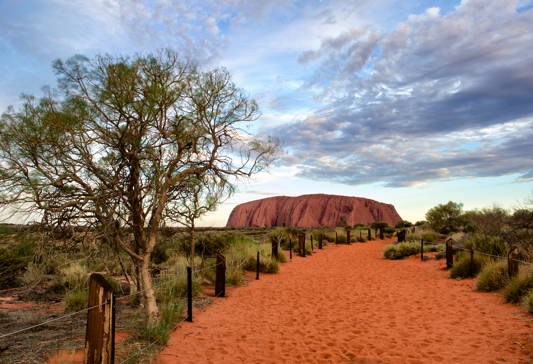 Uluru, Northern Territory, Australia